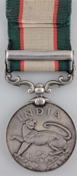 British campaign medal for service on the NW Frontier 1936-39. Reverse.